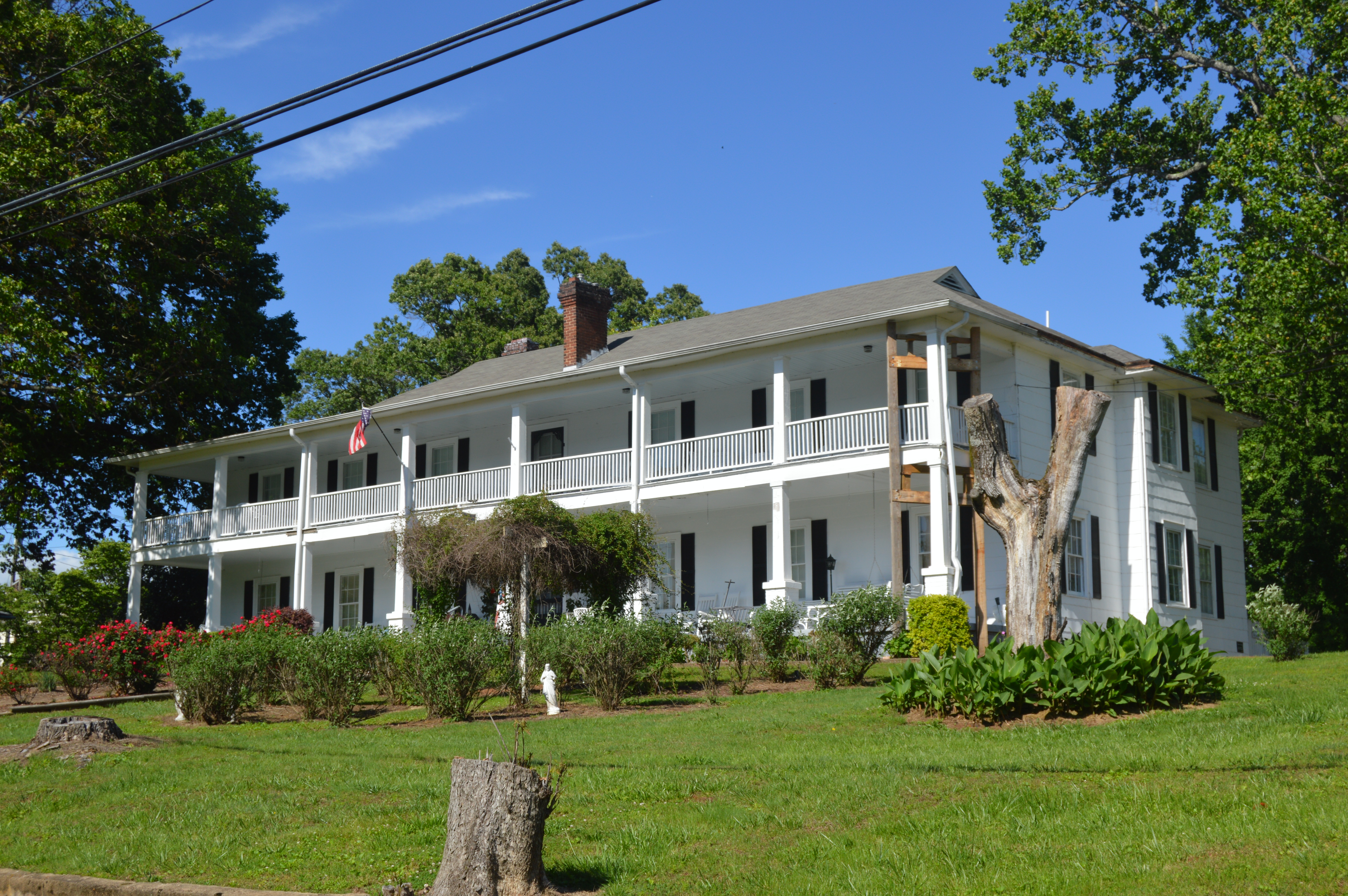 Front and southern end of the Virginia Home, located at 986 Field Avenue in Fieldale, Virginia, United States. Built in 1920, it is listed on the National Register of Historic Places.